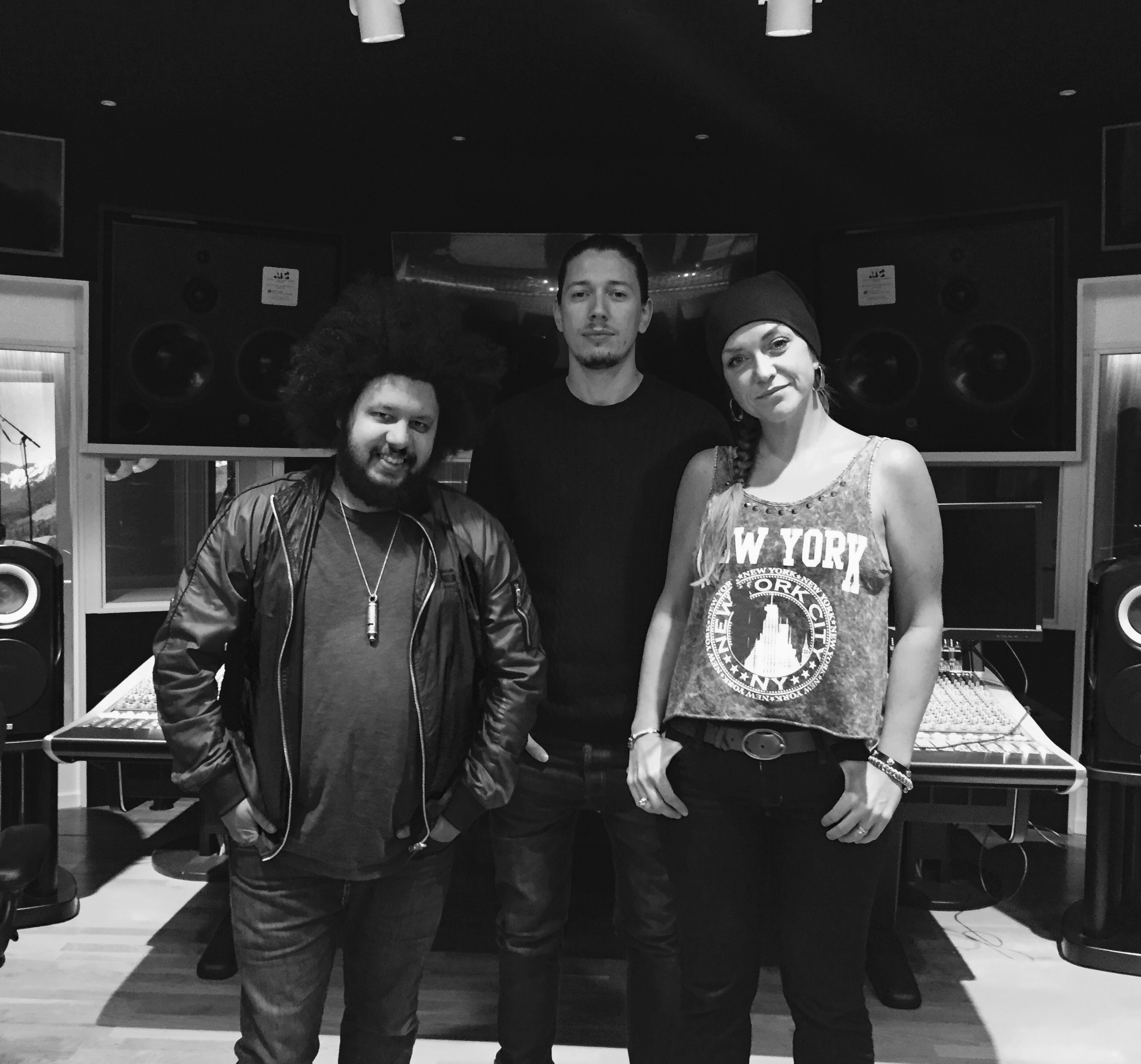 from left: Joy Deb, Anton Malmberg Hård Af Segerstad, Linnea Deb: The Family